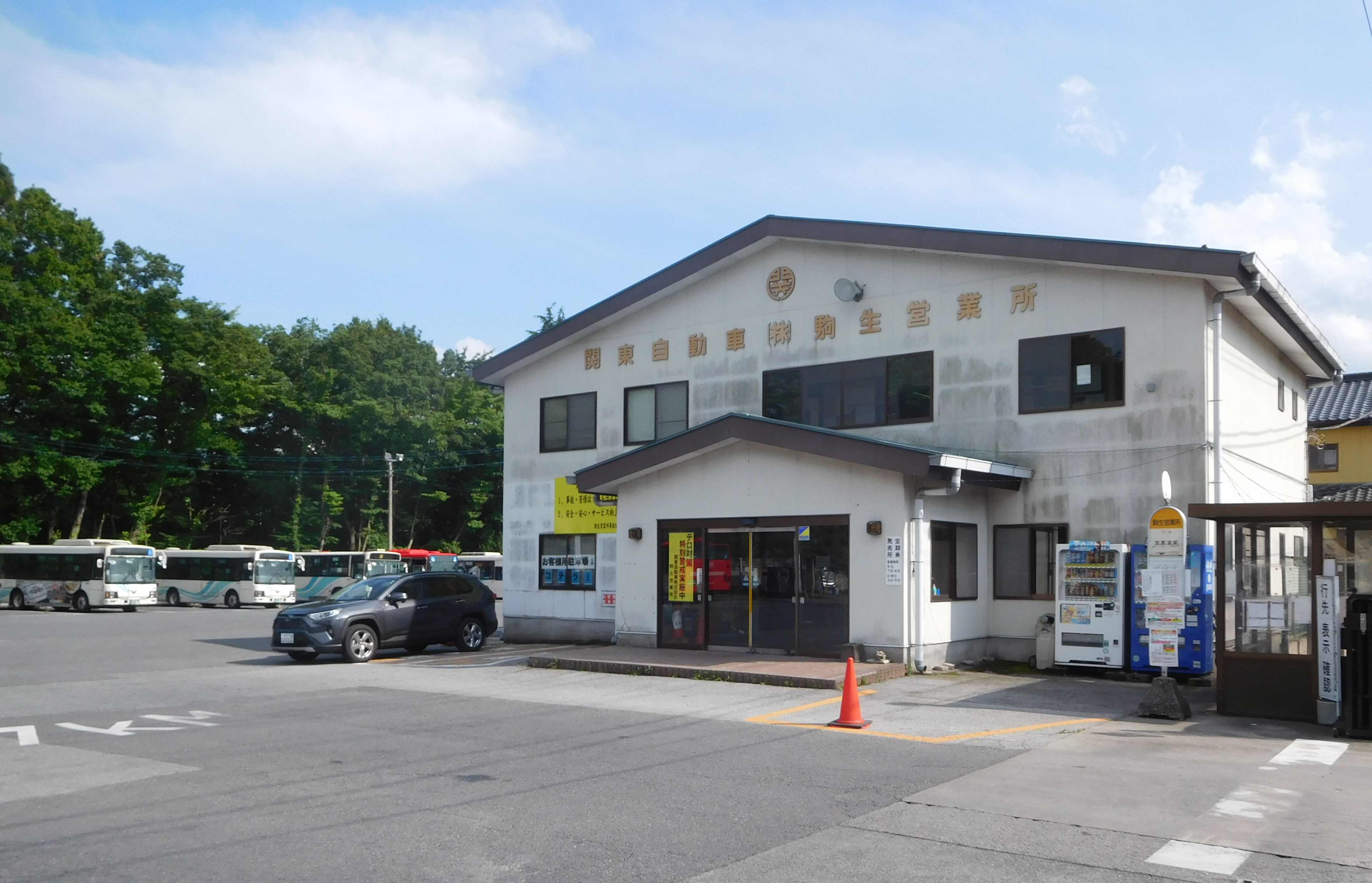 This is Kanto Bus Komanyu Service Station in Utsunomiya, Tochigi, Japan.